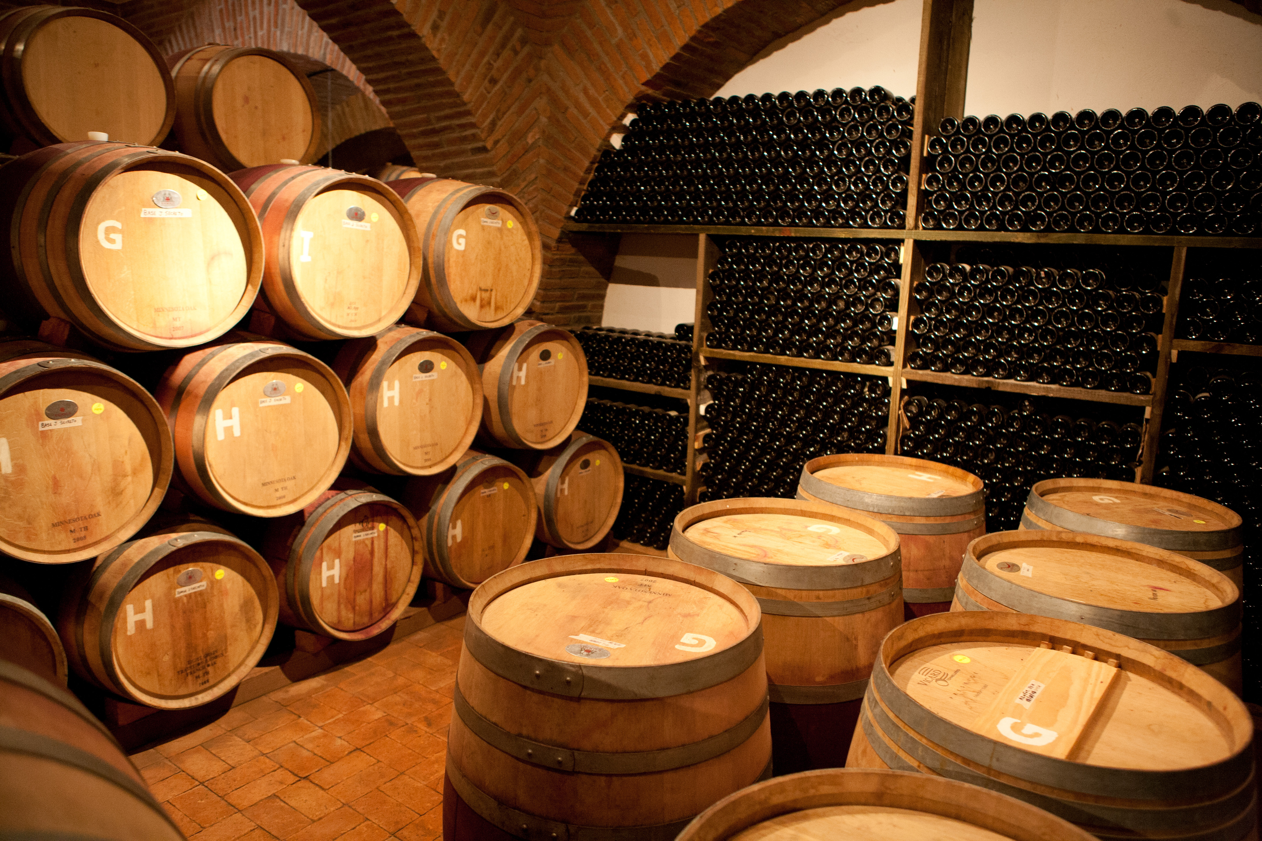 Adobe Guadalupe Winery of Ensenada, one of the fine wine producers in Baja California, Mexico.